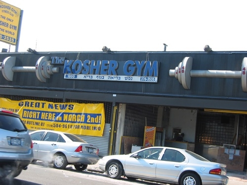 Picture taken during renovations